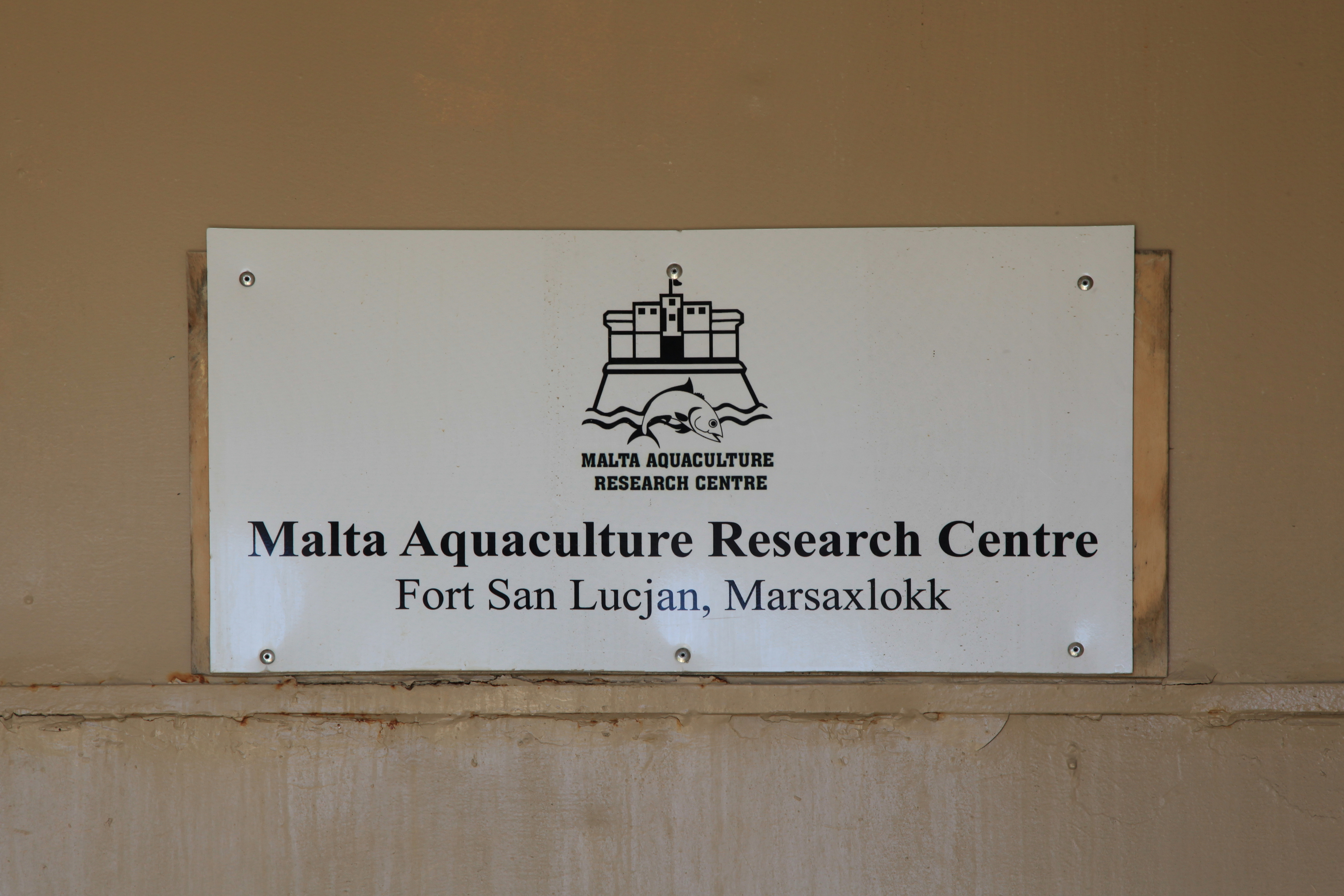 Malta Aquaculture Research Centre, St Lucian Tower at Triq il-Qajjenza in Birżebbuġa